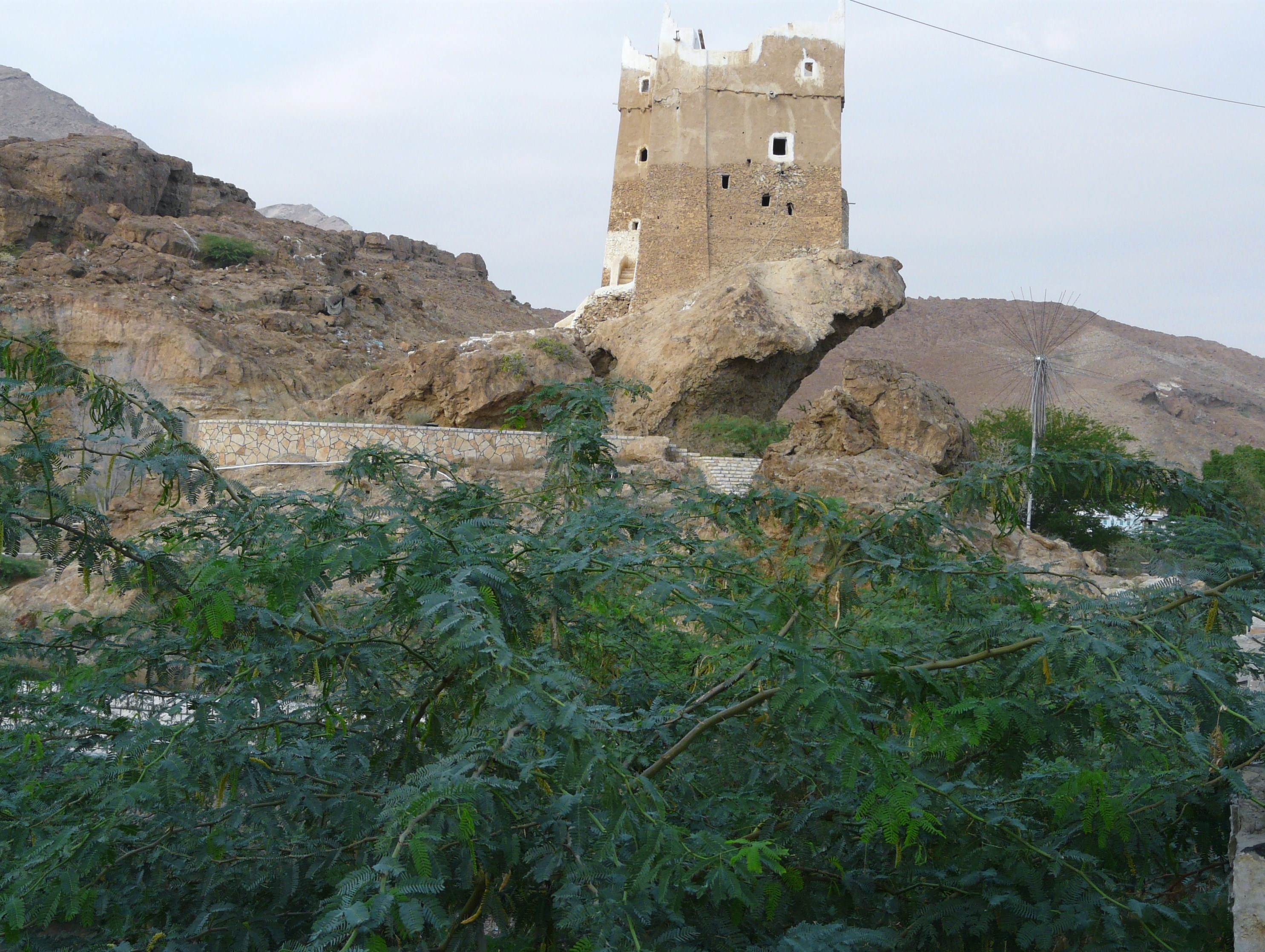 Kasr Alghwayzi in Al Mukalla.